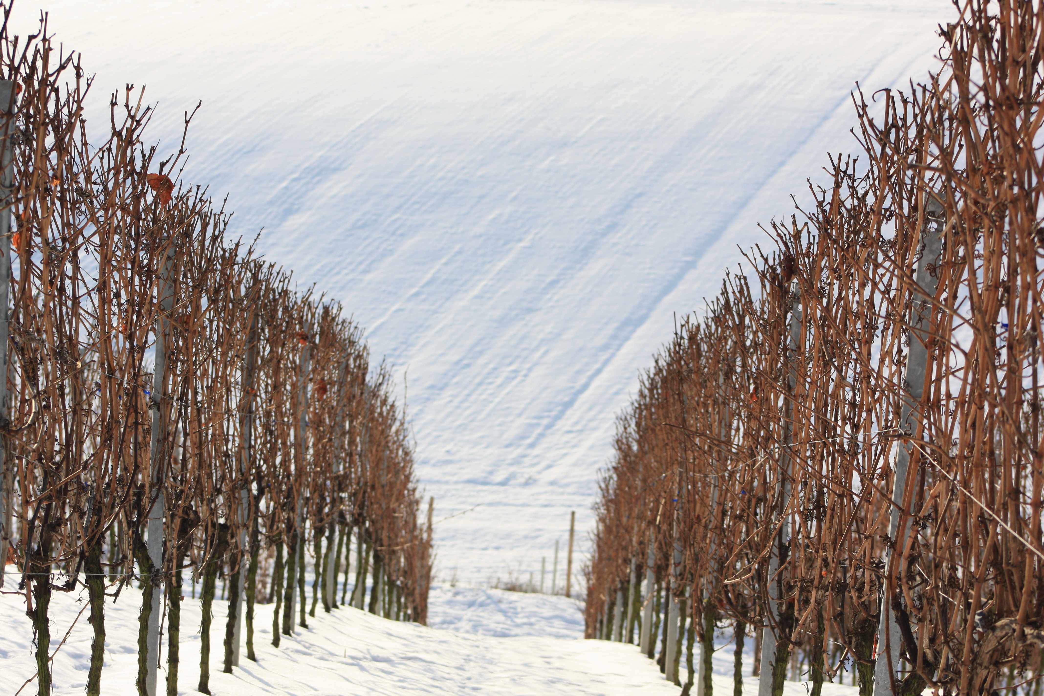 Vineyard in the German wine region of Wiesbaden, Hesse